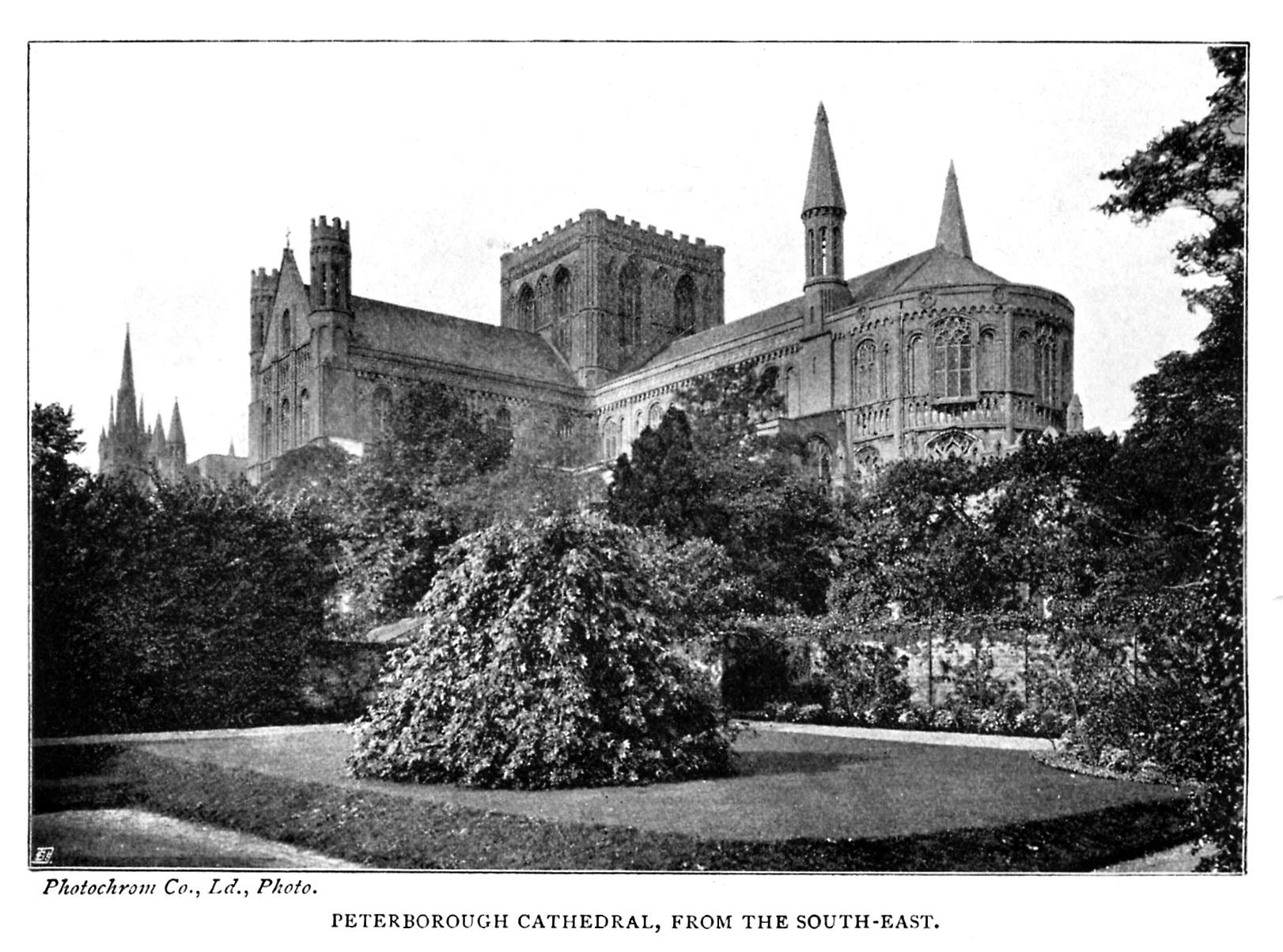 Peterborough Cathedral from the South East